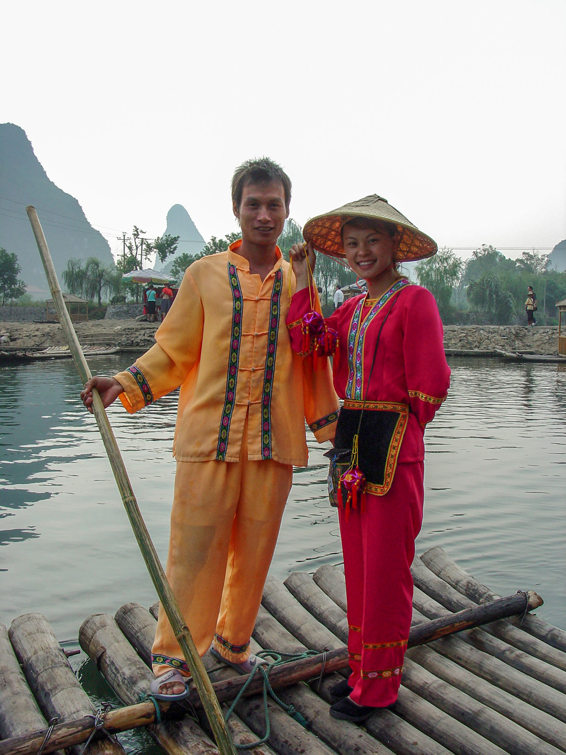 Rafting Excursion. Yangshuo Village, Guilin The rafts, which hold 8 or so people at a time, are made of bamboo. The crew are Zhuang minorities; the man poles the raft, and the lady sings traditional songs with the guests.